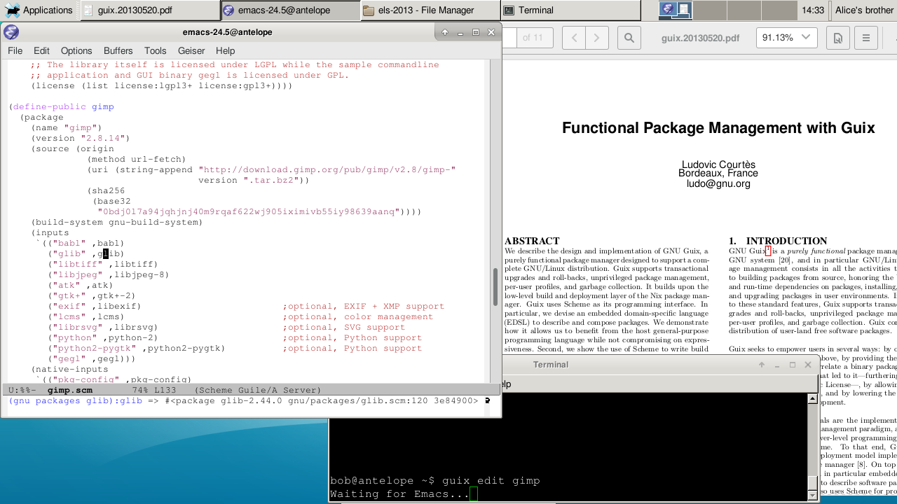 Screenshot of the Guix System Distribution.